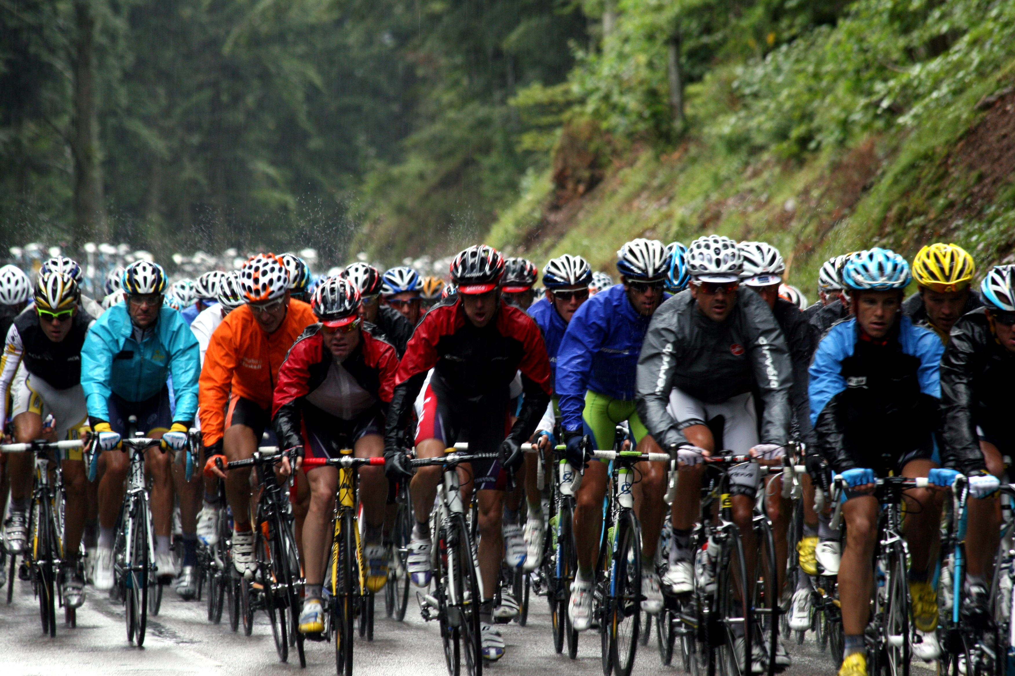 The cyclist peloton in the rain during the 13th stage of the 2009 Tour de France (Colmar-Vittel).